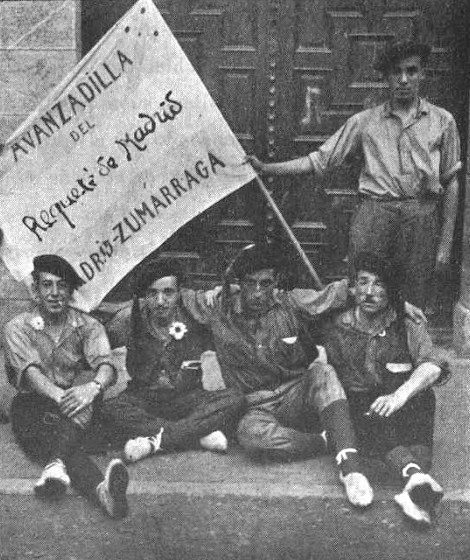 Madrid Requete